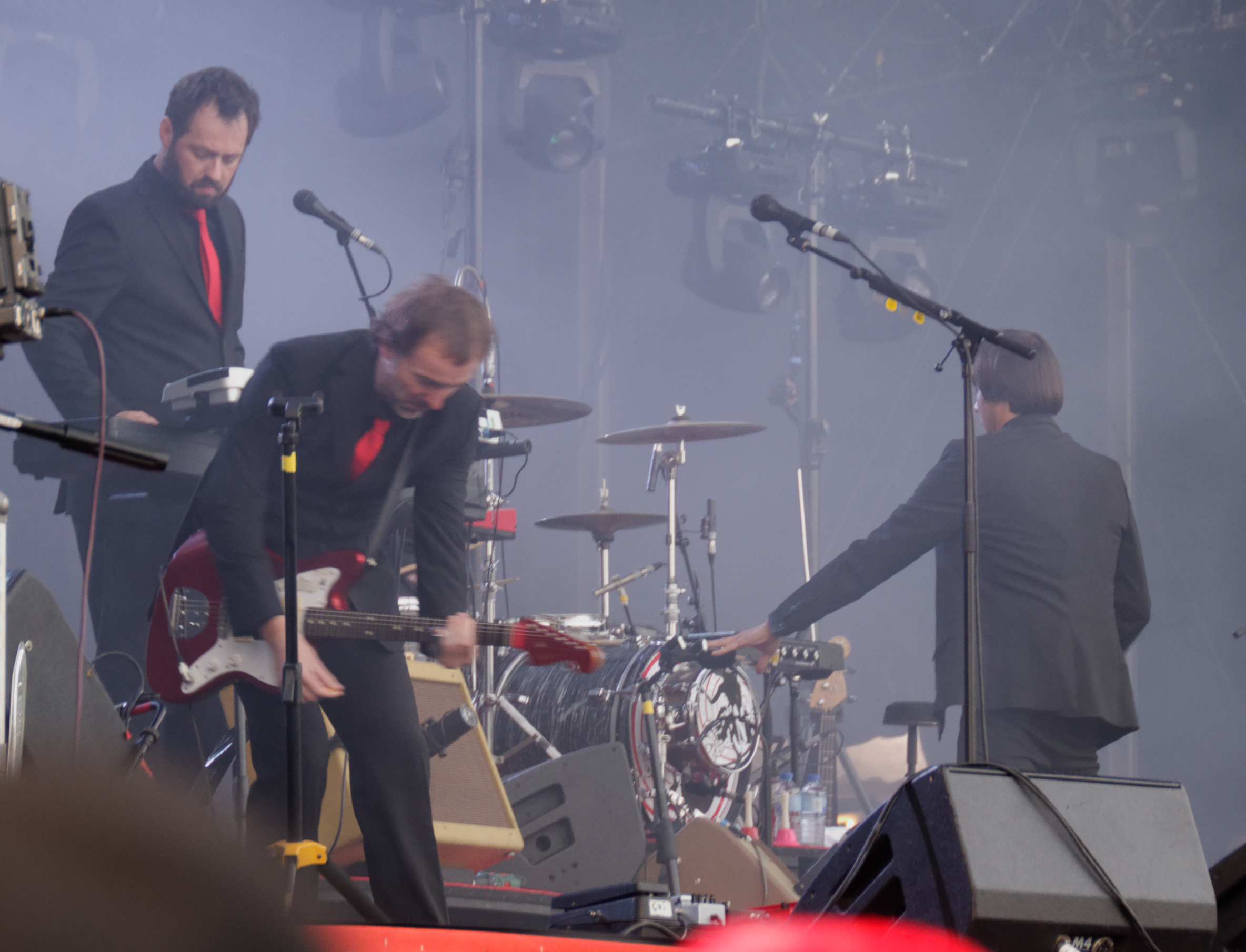 This photograph was taken with a Nikon D300 Personality rights warningAlthough this work is freely licensed or in the public domain, the person(s) shown may have rights that legally restrict certain re-uses unless those depicted consent to such uses. In these cases, a model release or other evidence of consent could protect you from infringement claims.